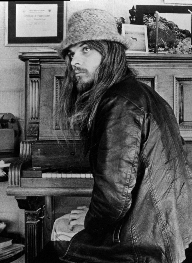 Publicity photo of Leon Russell. The photo was taken at his home, where he had recording facilities.